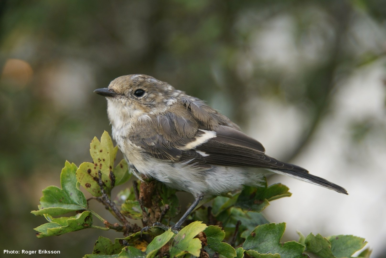 European pied flycatcher chick